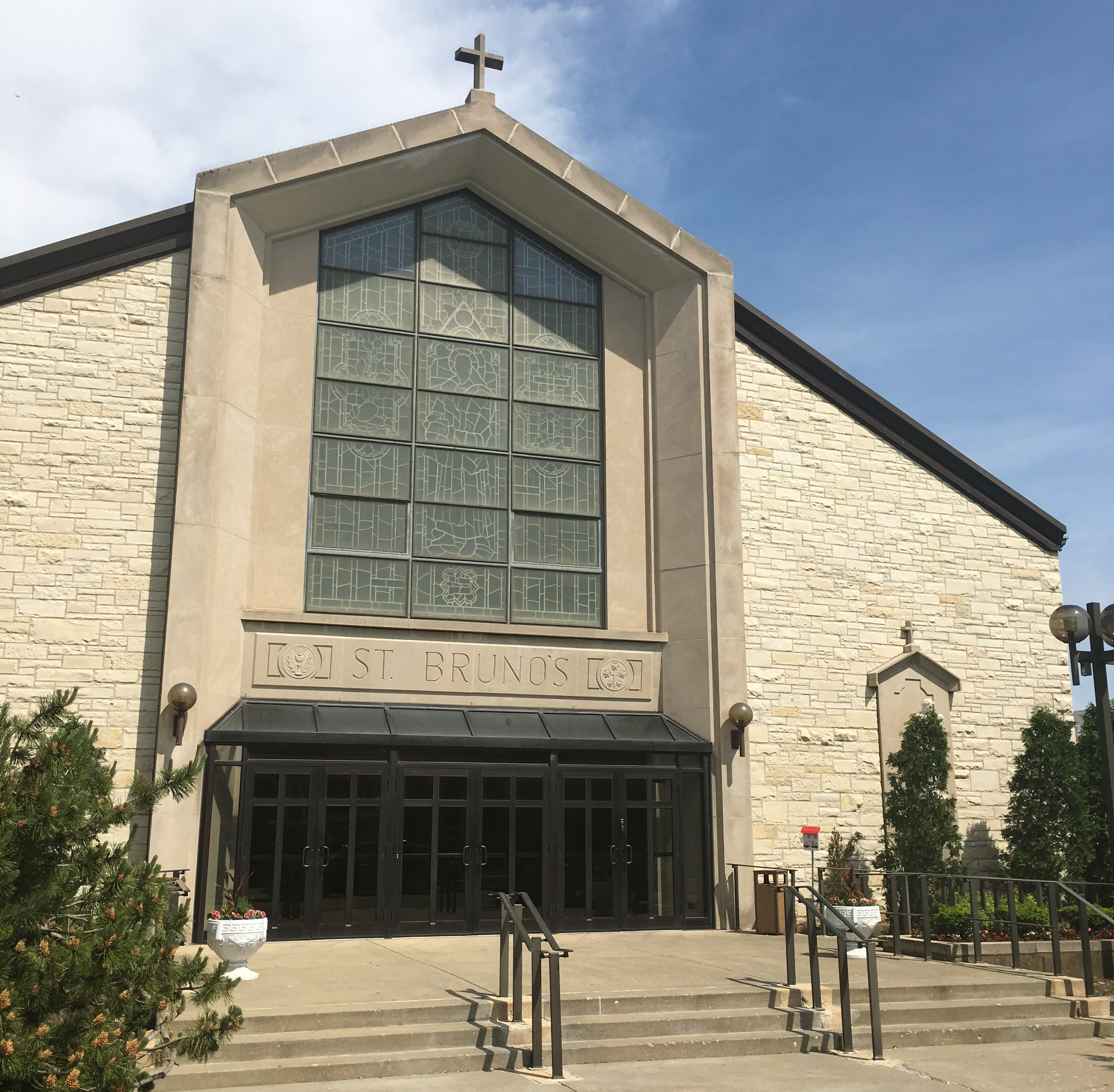 Image of the St. Bruno